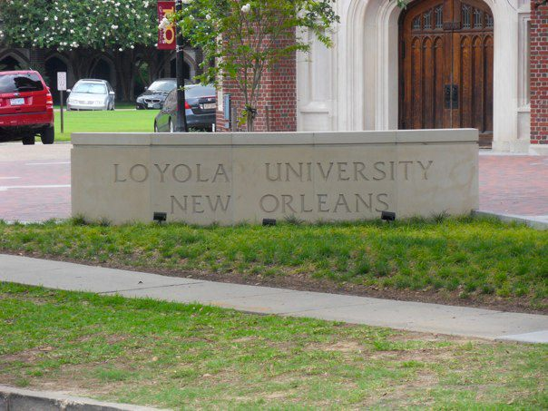 Loyola University NOLA New Orleans